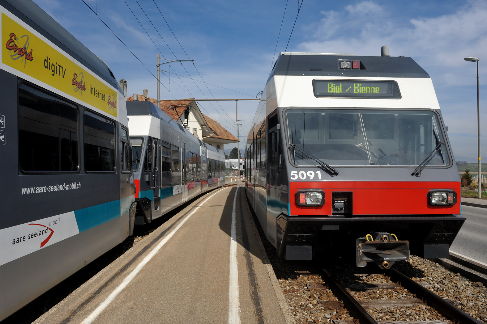 Stop and crossing Lattrigen of the ASm in Sutz-Lattrigen; Berne, Switzerland. Left two GTW 2/6 direction Täuffelen–Ins, right GTW 2/6 direction Biel.